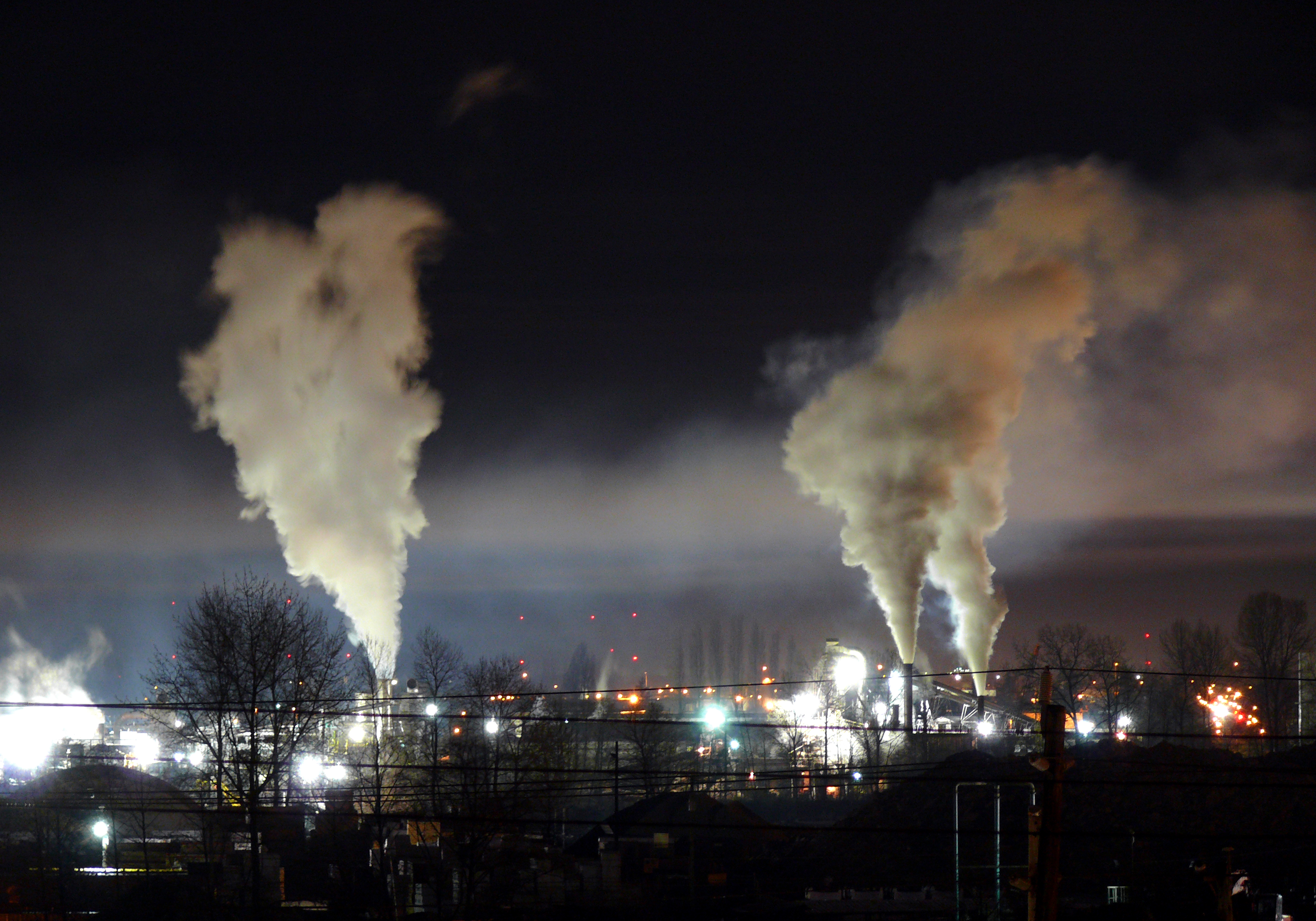 heavy industrial light pollution at night Richmond British Columbia